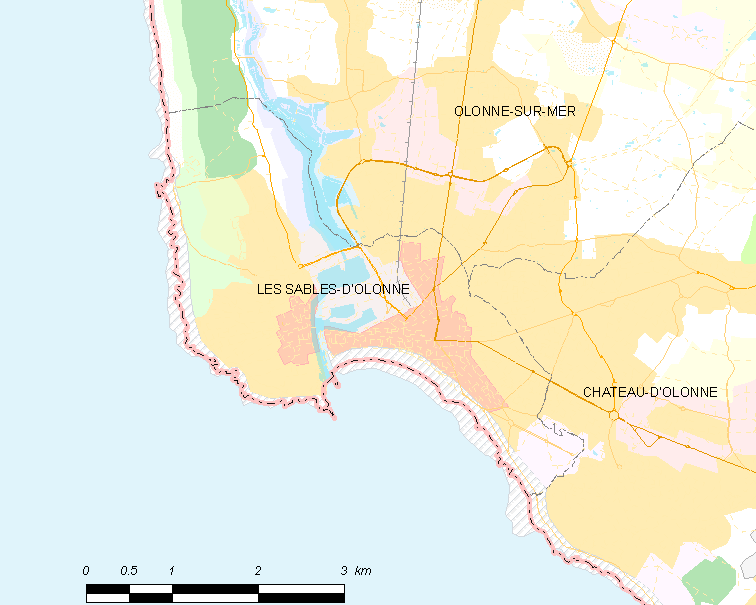 Map of French municipality Les Sables-d'Olonne